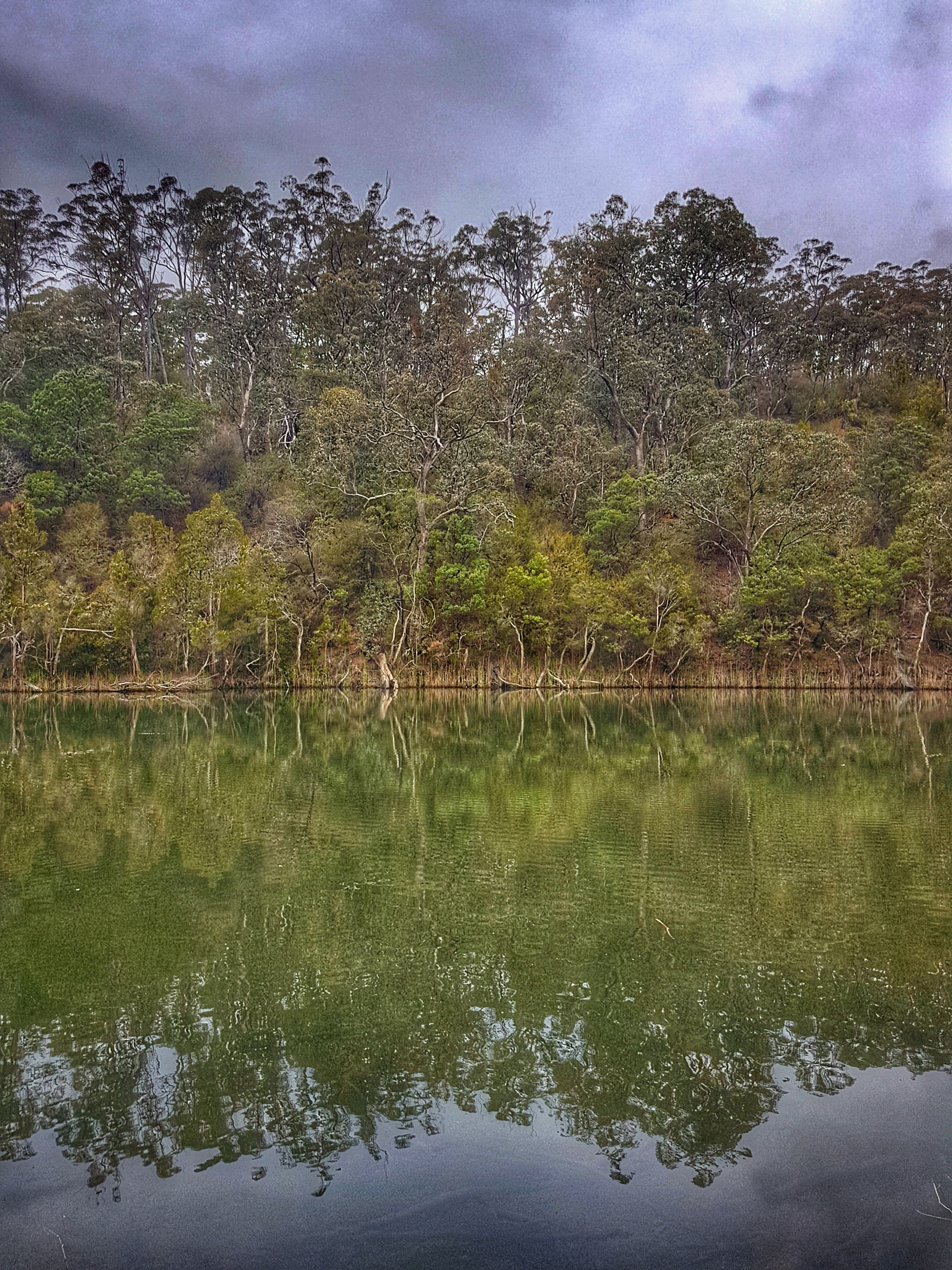 Nowa Nowa, the Aboriginal words meaning "the place of mingling waters", where the fresh water meets the tidal waters of Lake Tyers, one of a network of Gippsland Lakes in Victoria, Australia.